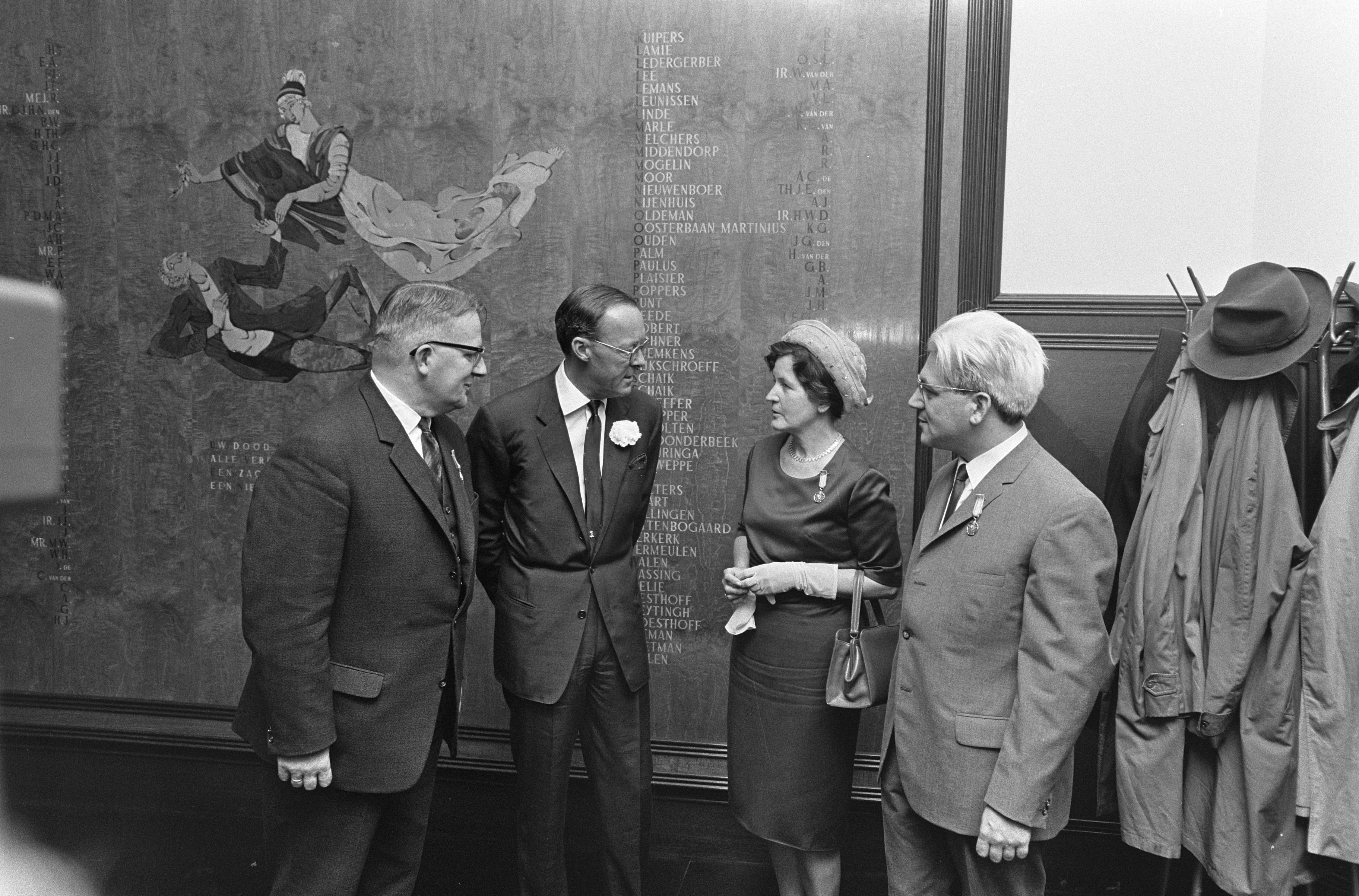 Prins Bernhard reikte Zilveren Anjer uit bij ABN te Amsterdam, v.l.n.r. mr. Romke de Waard, de prins, mevrouw J.M. Fennema Zboray en Broeder Erich (J.A. de Rijk, pseudoniem onder meer Bruno Ernst)